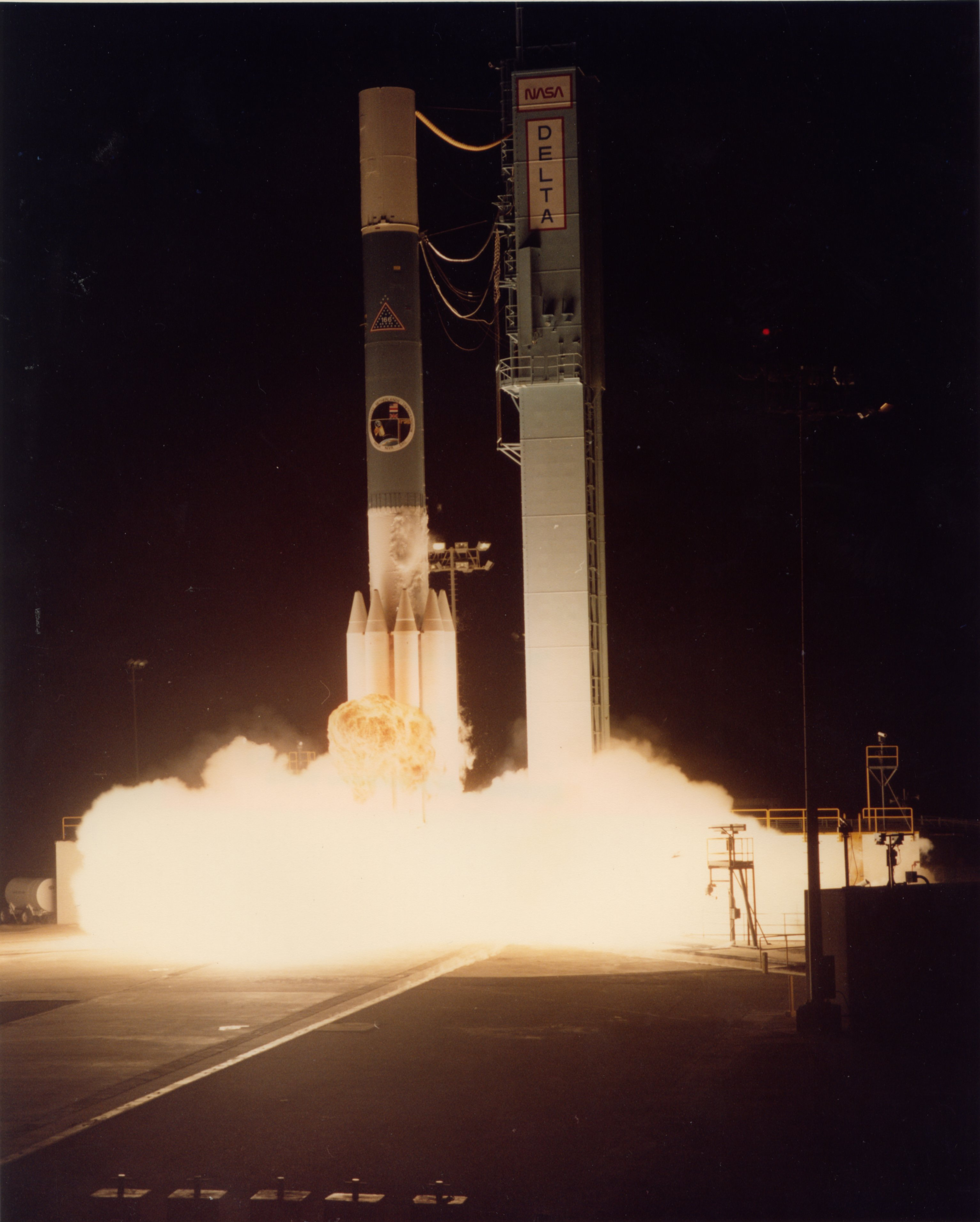 Ignition of six solid rocket motors on the Delta 3910 vehicle that lifted the IRAS satellite to a sun-synchronous polar orbit on january 25, 1983.